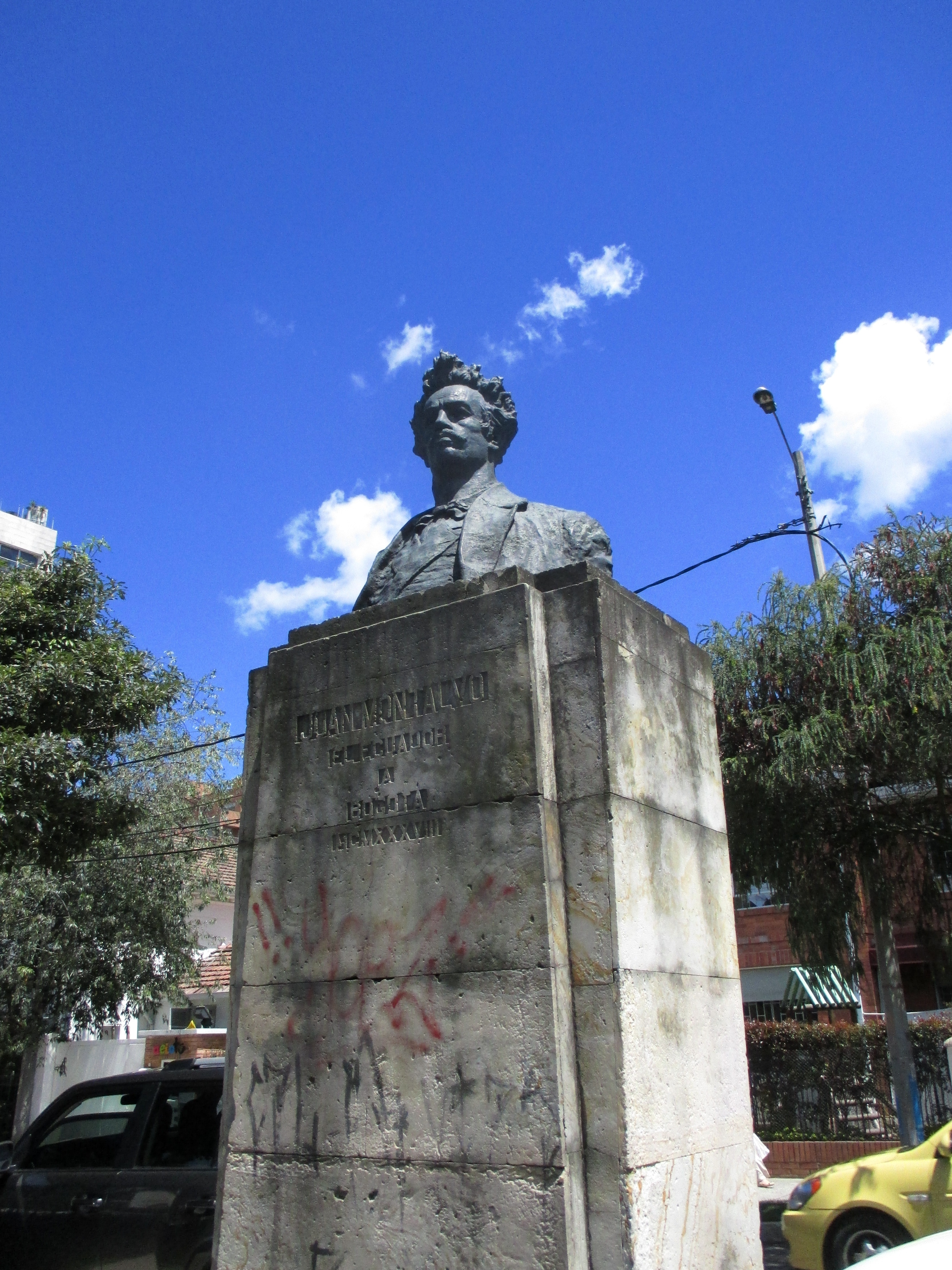 Bogotá